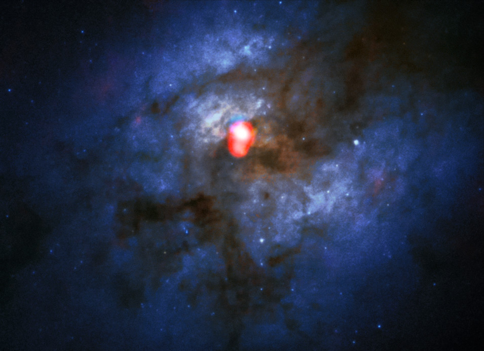 The compound view shows a new ALMA Band 5 image of the colliding galaxy system Arp 220 (in red) on top of an image from the NASA/ESA Hubble Space Telescope (blue/green). With the newly installed Band 5 receivers, ALMA has now opened its eyes to a whole new section of this radio spectrum, creating exciting new observational possibilities and improving the telescope’s ability to search for water in the Universe. In the Hubble image, most of the light from this dramatic merging galaxy pair is hidden behind dark clouds of dust. ALMA's observations in Band 5 show a completely different view. Here, Arp 220's famous double nucleus, invisible for Hubble, is by far the brightest feature in the whole galaxy complex. In this dense, double centre, the bright emission from water and other molecules revealed by the new Band 5 receivers will give astronomers new insights into star formation and other processes in this extreme environment. This image is one of the first taken using Band 5 and was intended to verify the scientific capability of the new receivers. The ALMA image includes data recording emission from water, CS and HCN in the galaxies.